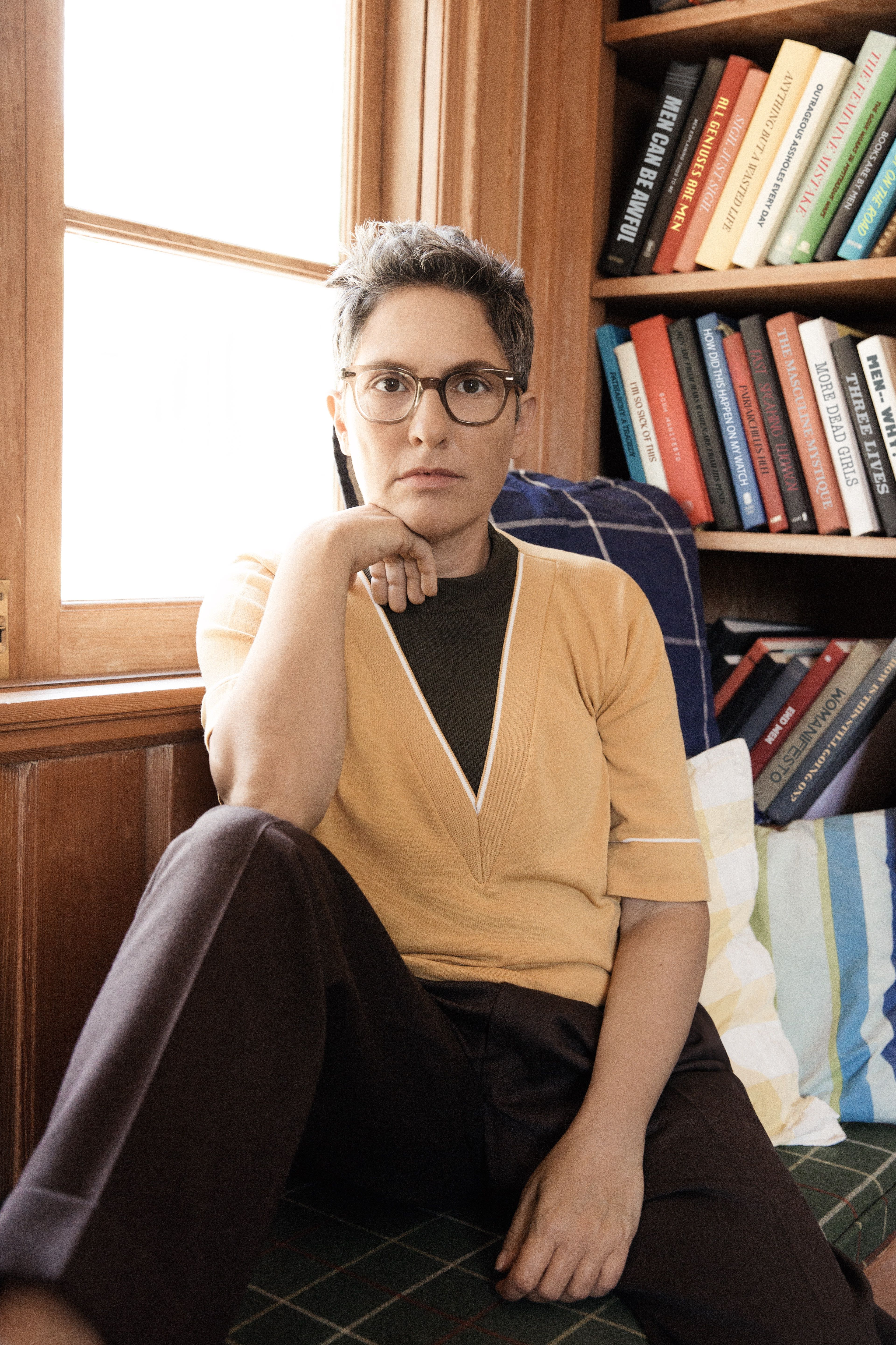 Joey Soloway sits, in a yellow sweater and glasses, in front of a book shelf.